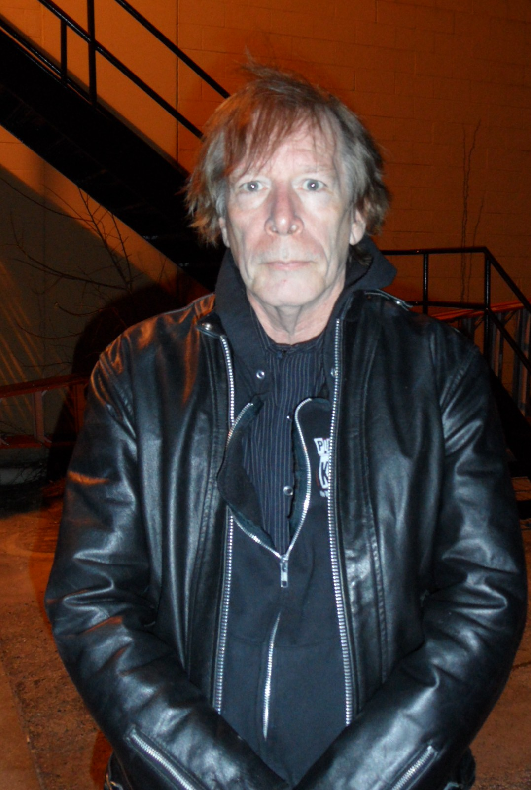 Legs McNeil backstage at 27 Live in Evanston, IL after doing a reading from his book "Please Kill Me"